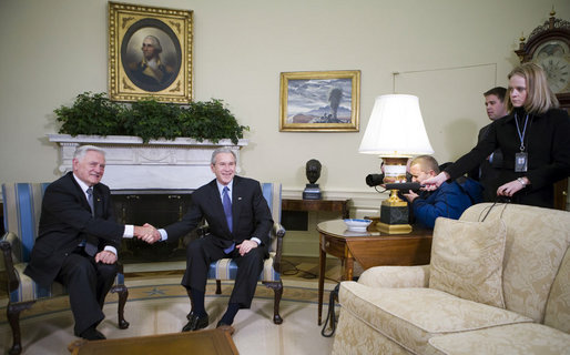 President George W. Bush exchanges handshakes with President Valdas Adamkus of Lithuania, during the leader's visit Monday, Feb. 12, 2007, to the White House. White House photo by Eric Draper